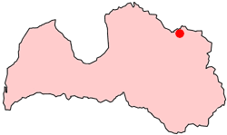 Location map of Ape city, Latvia.